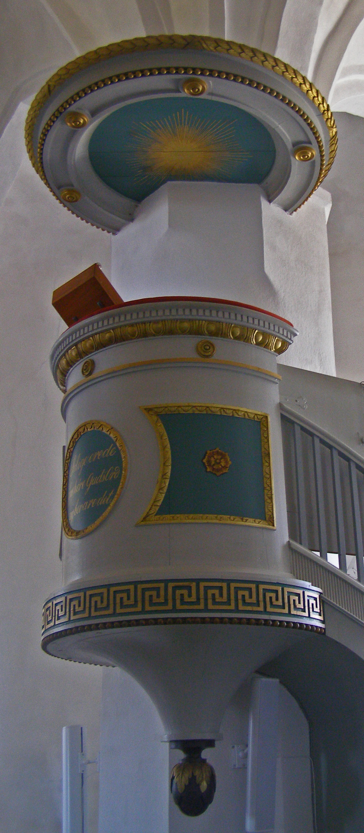 photographer: selfdate: jy 06subject: horne church pulpit